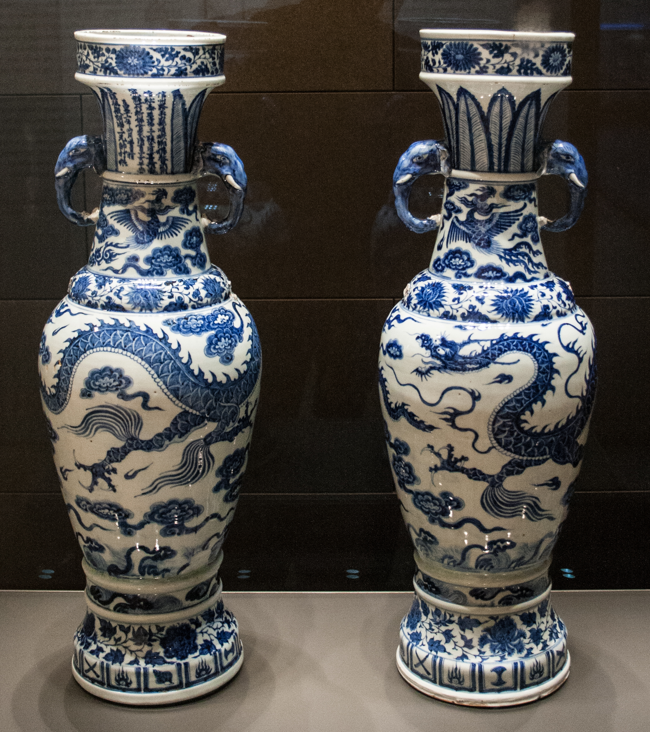 The David Vases (Yuan dynasty, 1351 AD) in Room 95, Chinese ceramics, British Museum